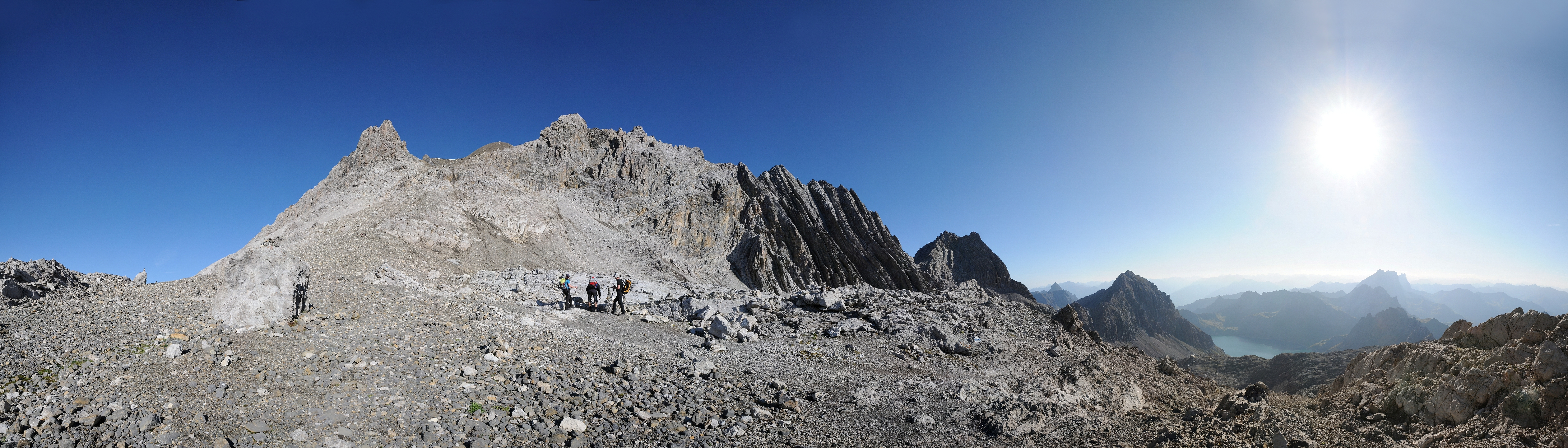 Panorama around 9 o'clock in the morning in Vandanser municipality. The mountain range on the left shows the fireplace with five hikers in the direction Schesaplana 2.965m. It follows the cliff top, and the Zirmenkopf Seekopf. The Lünersee can be reached on foot via the Totalphütte in about two hours. NOTE: This image is a panorama consisting of multiple frames that were merged or stitched in software. As a result, this image necessarily underwent some form of digital manipulation. These manipulations may include blending, blurring, cloning, and colour and perspective adjustments. As a result of these adjustments, the image content may be slightly different from reality at the points where multiple images were combined. This manipulation is often required due to lens, perspective, and parallax distortions.